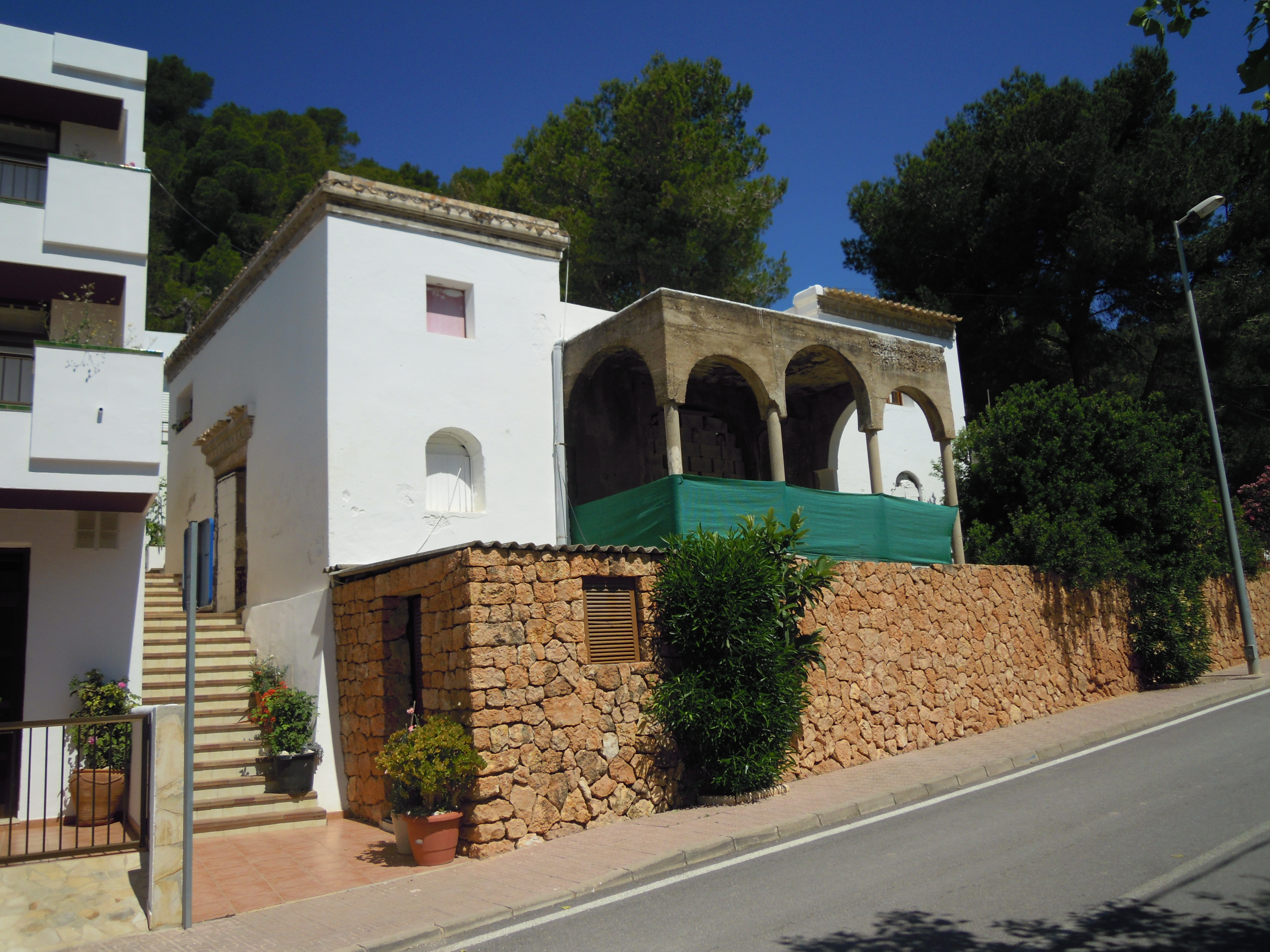 Photograph of Raoul Villain's House on the back of the beach at Cala San Vincent, Ibiza, Spain